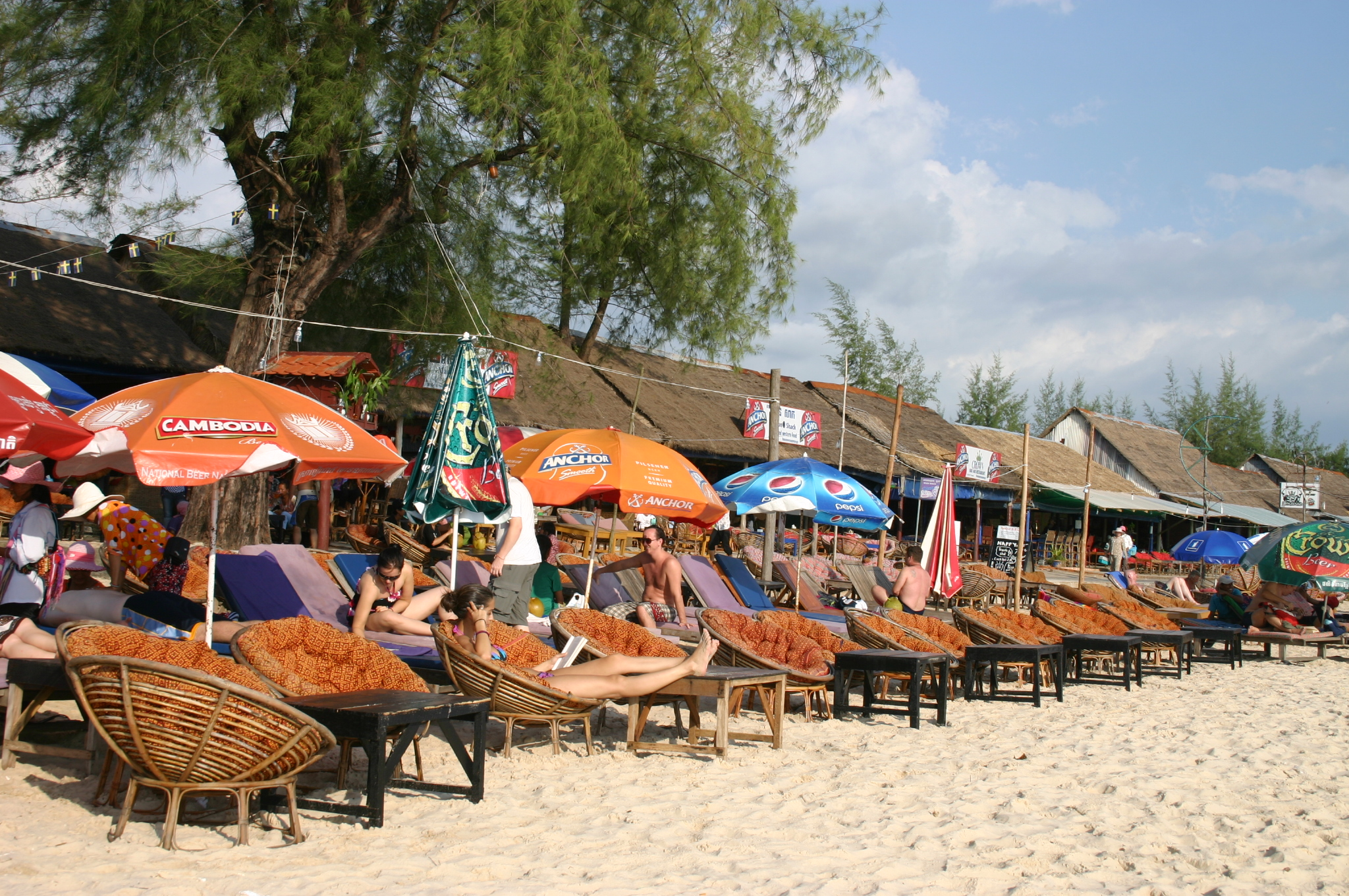 Beach in Sihanoukville